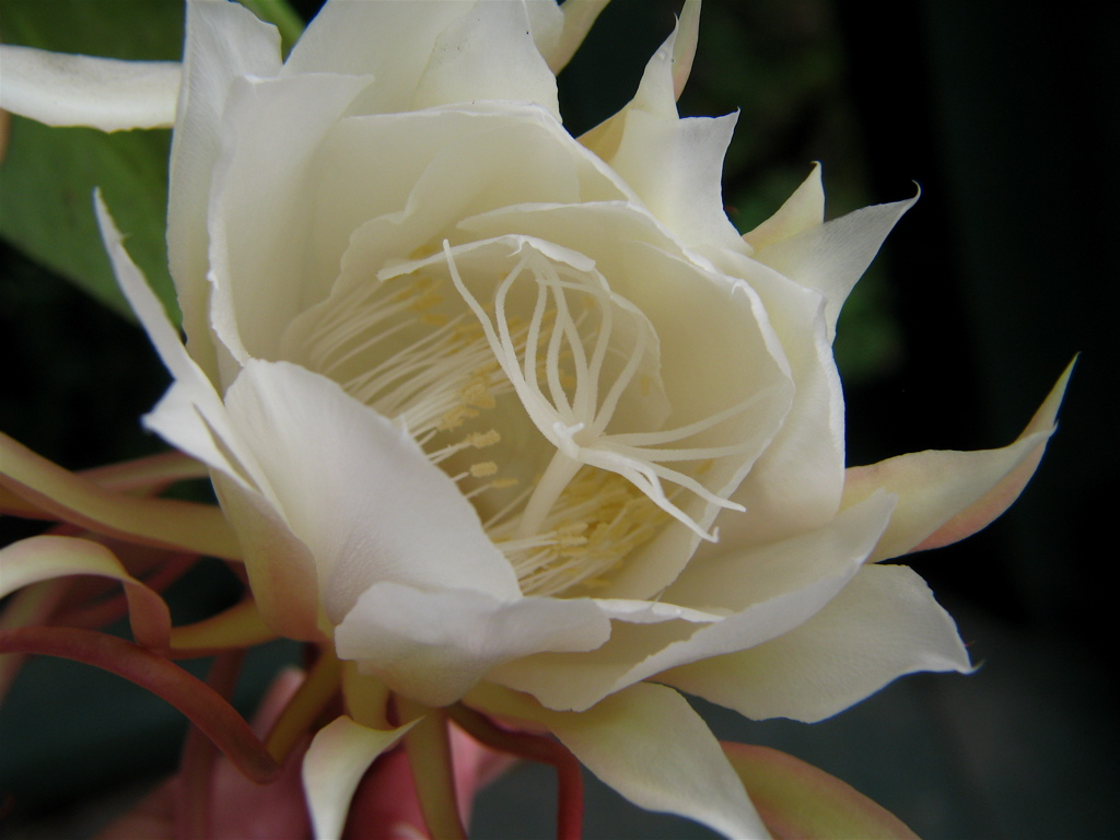 A friend's Mother has had this plant for 19 years and this is the second time it's ever bloomed for her. For more information on this beautiful plant- Some other names- Red Pitaya, Dragonfruit, Belle of the Night